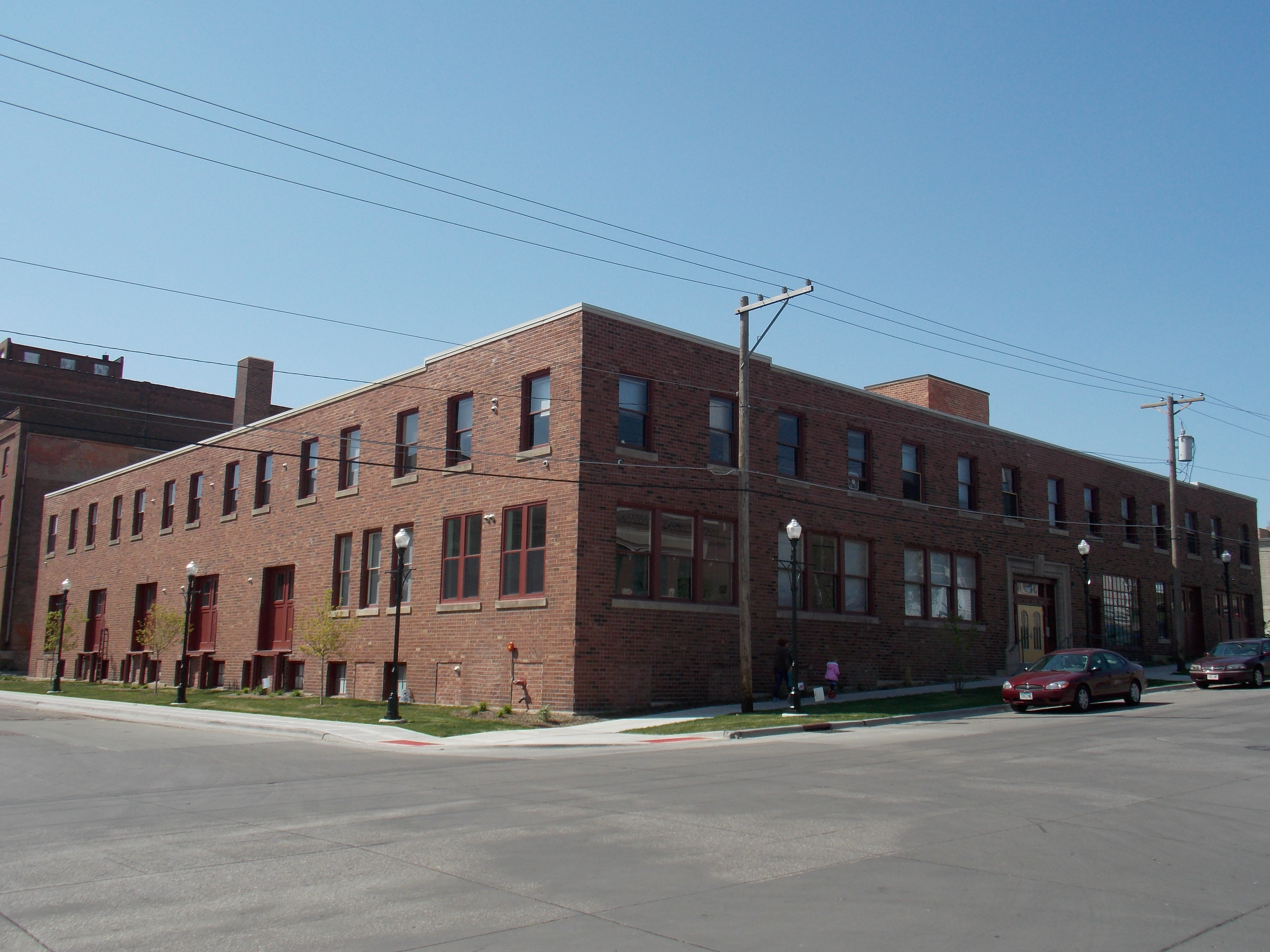 5th Street Lofts located in Davenport, Iowa was built as the second Sieg Iron Company Building. It is a contributing property in the Crescent Warehouse Historic District.